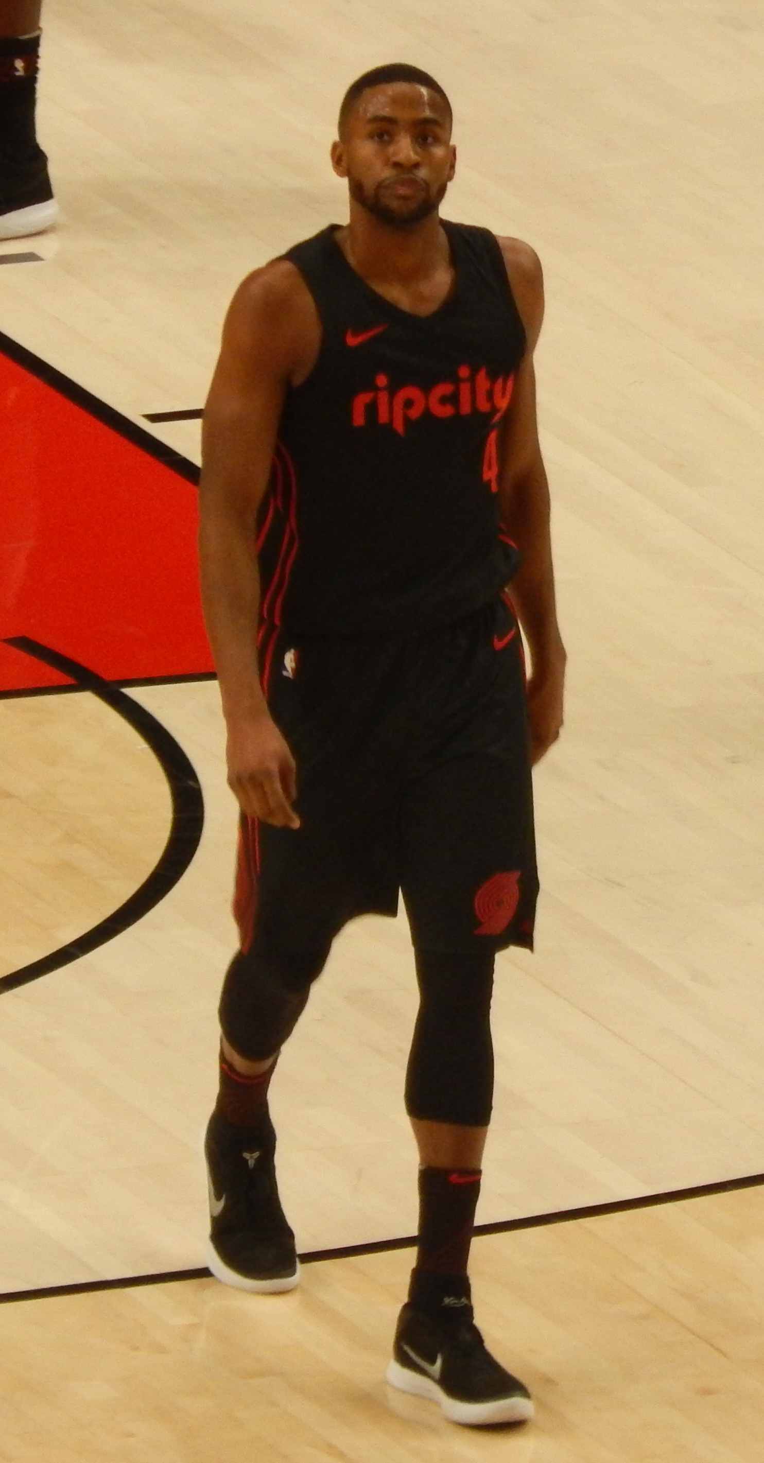 Maurice Harkless #4 of the Portland Trail Blazers against the Miami Heat on March 12, 2018 at Moda Center in Portland, Oregon.